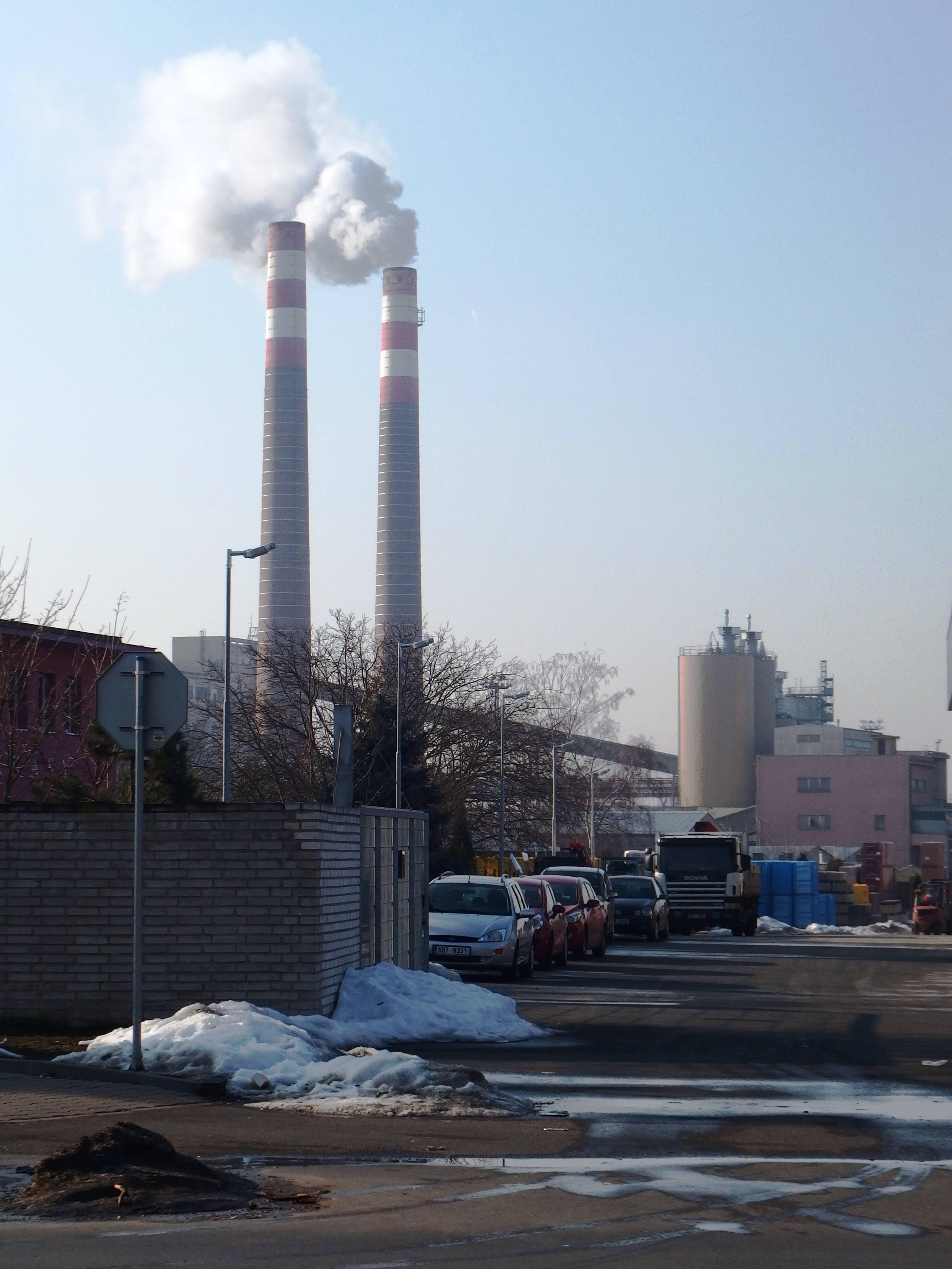 Hodonín, Czech Republic. Power station.